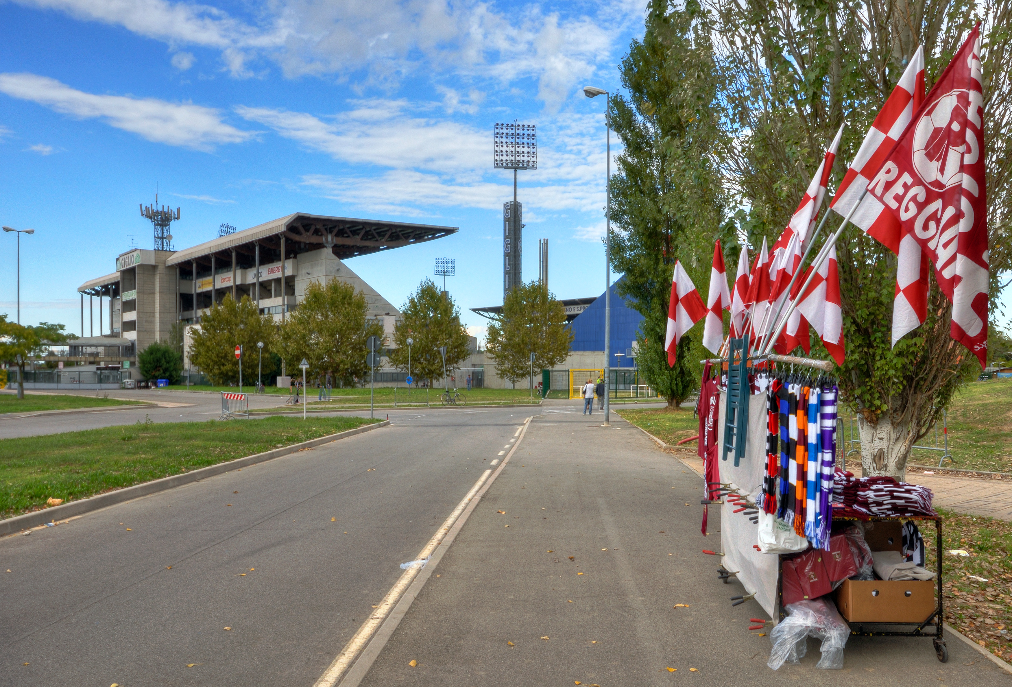 Last year I went to the Giglio stadium to pick up my daughter who was invited as a ball girl at the soccer game. I am not a big soccer fan, so I waited outside the stadium taking some pictures of the almost desert streets surrounding the structure. Everybody else was inside except some security people at the gates and some occasional passers by. All I could hear were the harsh choruses of the supporters... a kind of eerie atmosphere, actually...